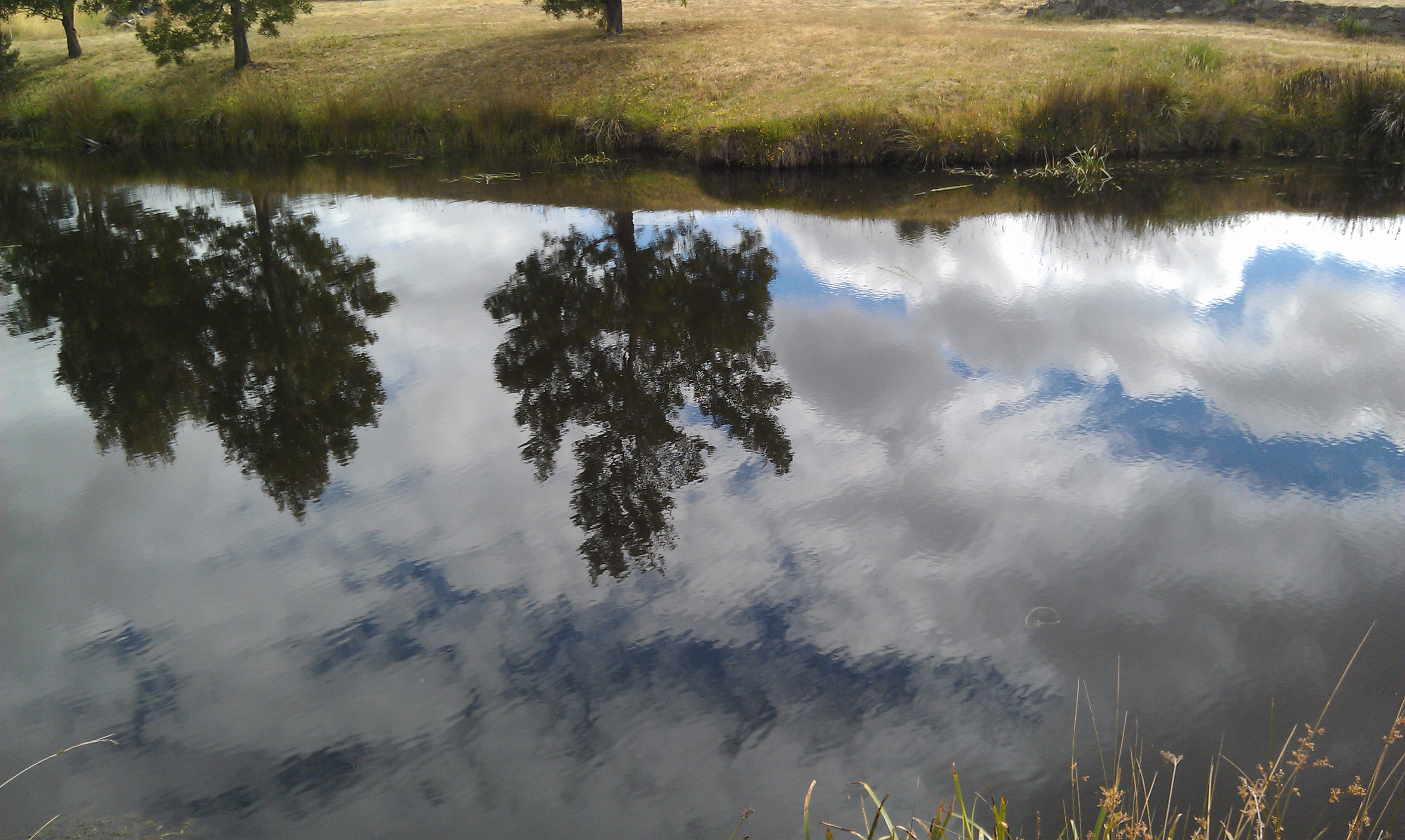 Reflections on the Coal River, Richmond Tasmania